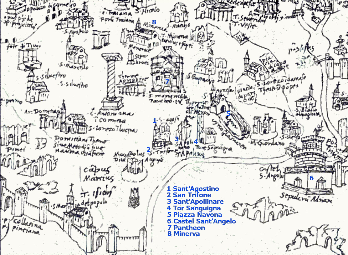 Sant'Agostino (Rome); Strozzi Map of Rome 1474 detail